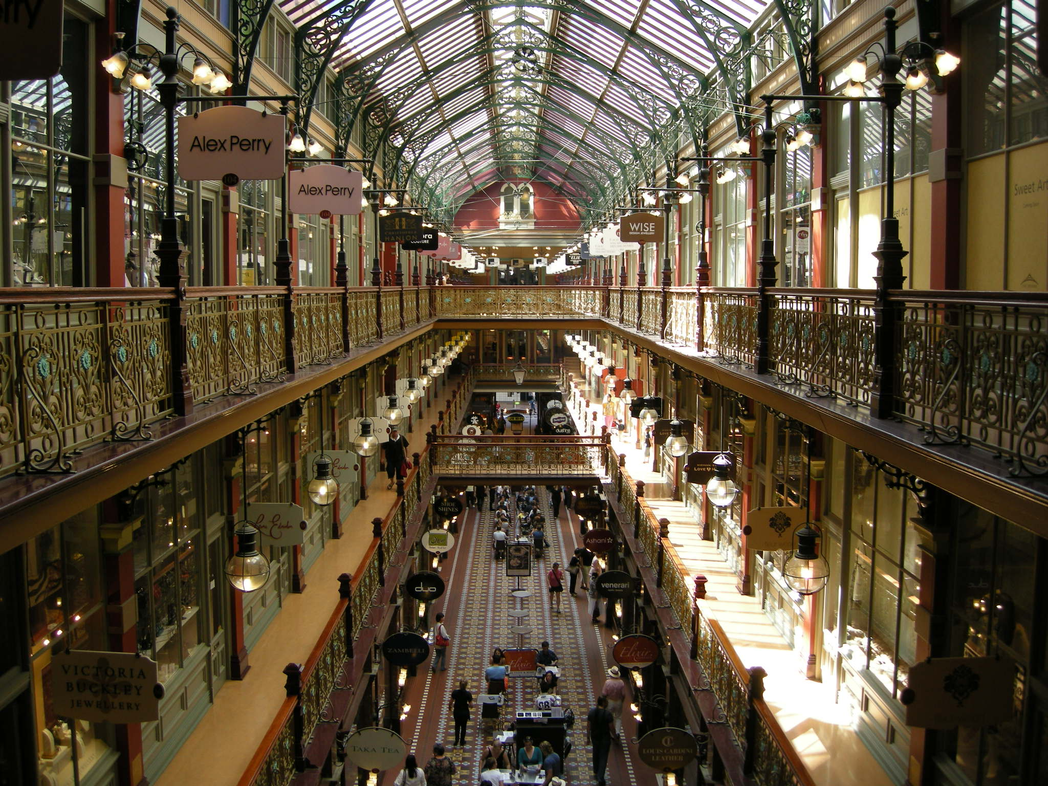 Strand Arcade